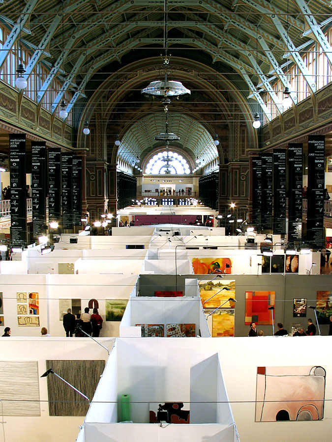 Art Fair at the Melbourne Exhibition Building